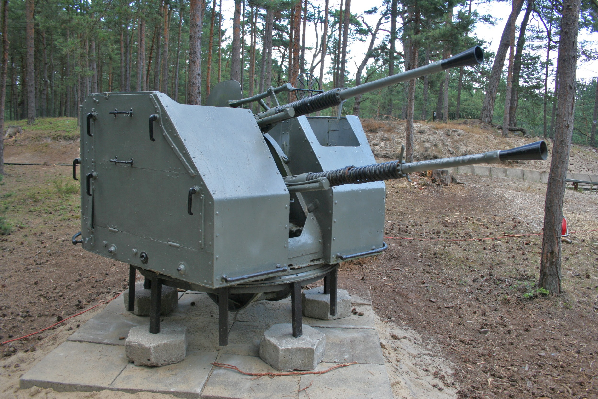 Outside exhibition in Museum of Coastal Defence.